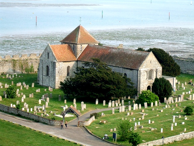 St. Mary's, Portchester in its churchyard Taken from high up on the tower of Portchester Castle looking down on this fine Romanesque church (see several other photos in this square). The church dates from the mid C12th making it of Norman origin as can be detected by the Romanesque architecture. The walls seen behind the church, forming the eastern and southern boundaries of its churchyard are Roman. This Roman wall encloses the entire castle site and must be one of the finest Roman remains in England.